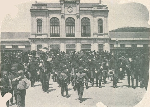 Group of congressists leaving the Viana do Castelo Railway Station, in Portugal, for a visit to the city, in the 23rd May 1911. This image was published on the Ilustração Portuguesa magazine No. 276 (II Series), of the 5th June 1911 and scanned by the Hemeroteca Municipal de Lisboa.